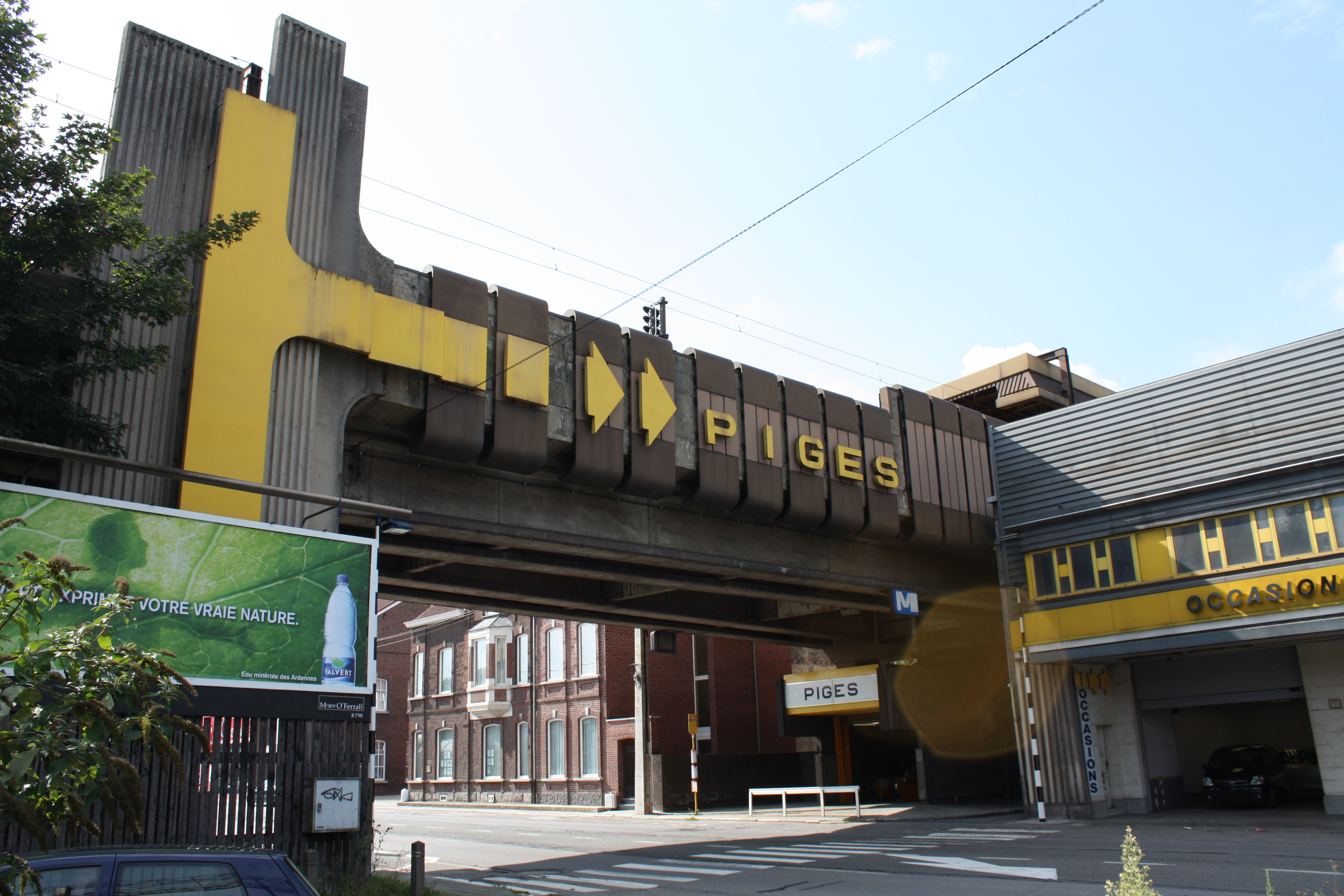 Piges station Shot on 2009-09-19 on a tour of Charleroi's subway, kindly hosted by TEC-Charleroi. - OpenStreetMap (Info)